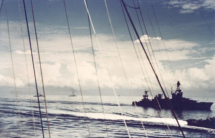 Allied ships maneuvering off Tulagi, Solomon Islands, on 9 August 1942. The U.S. Navy heavy cruiser USS Chicago (CA-29) is at right, with a destroyer's stern and wake in the foreground. The column of smoke in the left center distance, beyond the two destroyers, may be from the burning troop transport USS George F. Elliott (AP-13).